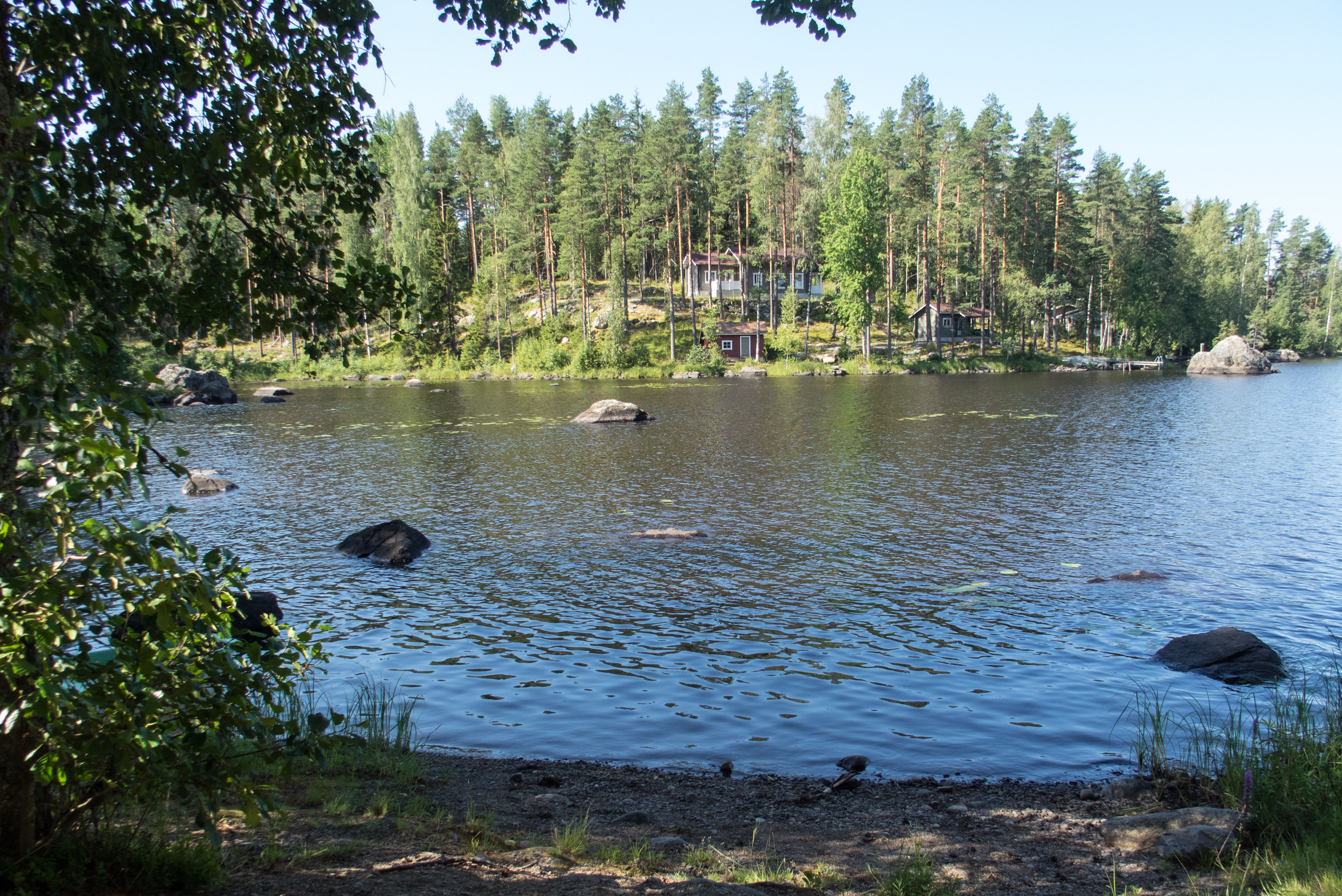 Joutsijärvi lake, north of Koski, Ulvila, Finland